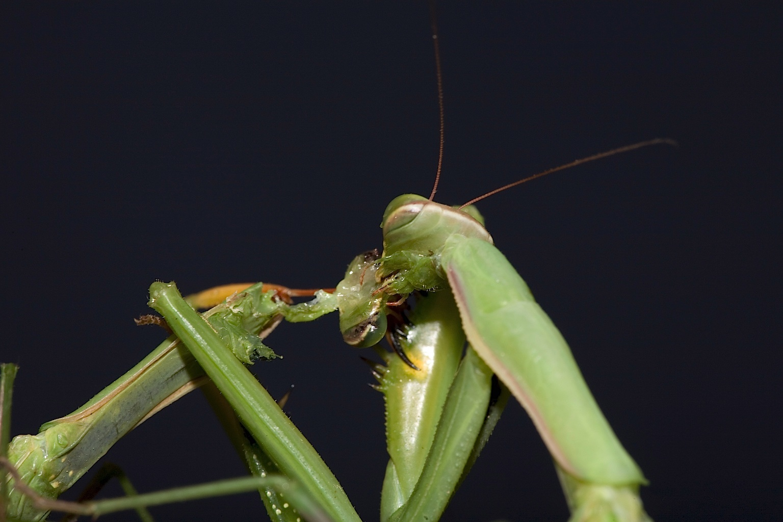 Praying Mantis Sexual Cannibalism Female just bite the Male Head of the Neck